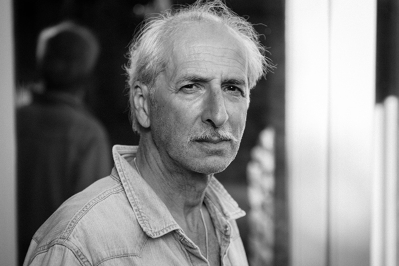 David Costa in August 2016